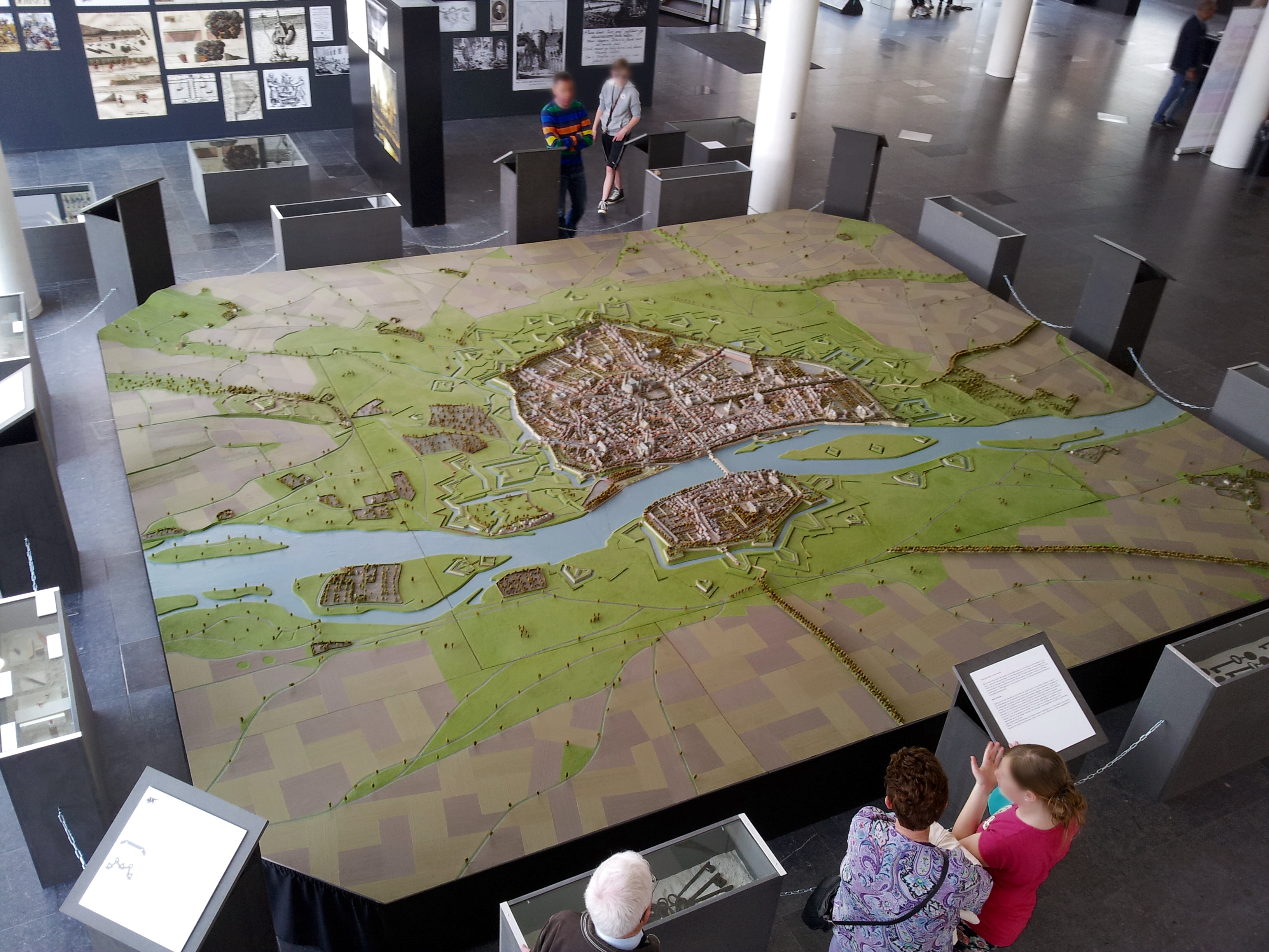 View of the Maquette of Maastricht. The scale model was made in 1974-1982, a genuine copy of the 18th-century original made for King Louis XV of France, now in the Palais des Beaux-Arts in Lille). Usually only the central part is on display in Centre Céramique; once in five years the whole maquette is exhibited, as is the case here.